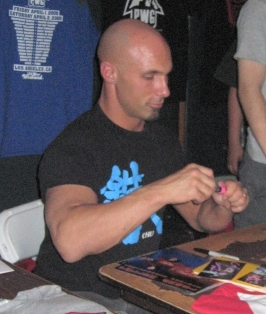 Fallen Angel Christopher Daniels entertaining fans.